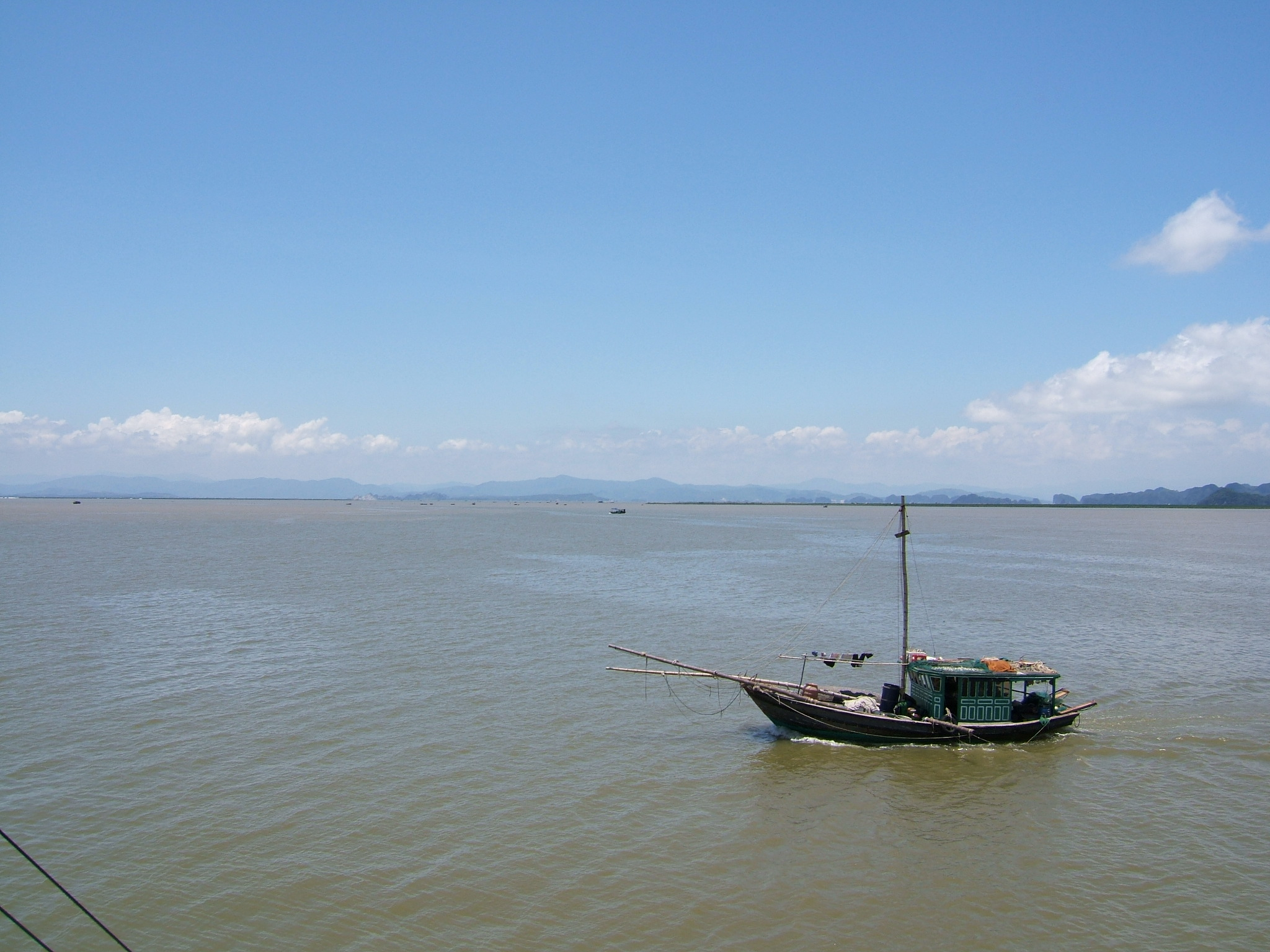 Bach Dang River near Dinh Vu